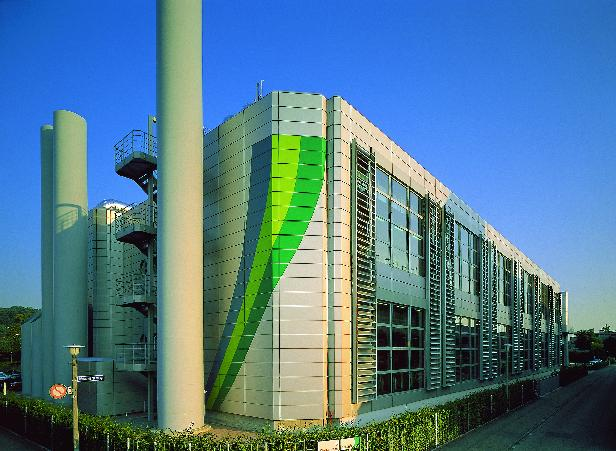 Habasit Headquarters in Reinach, Basel